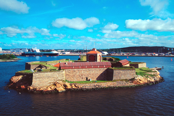 Älvsborg Castle in Västergötland, Sweden